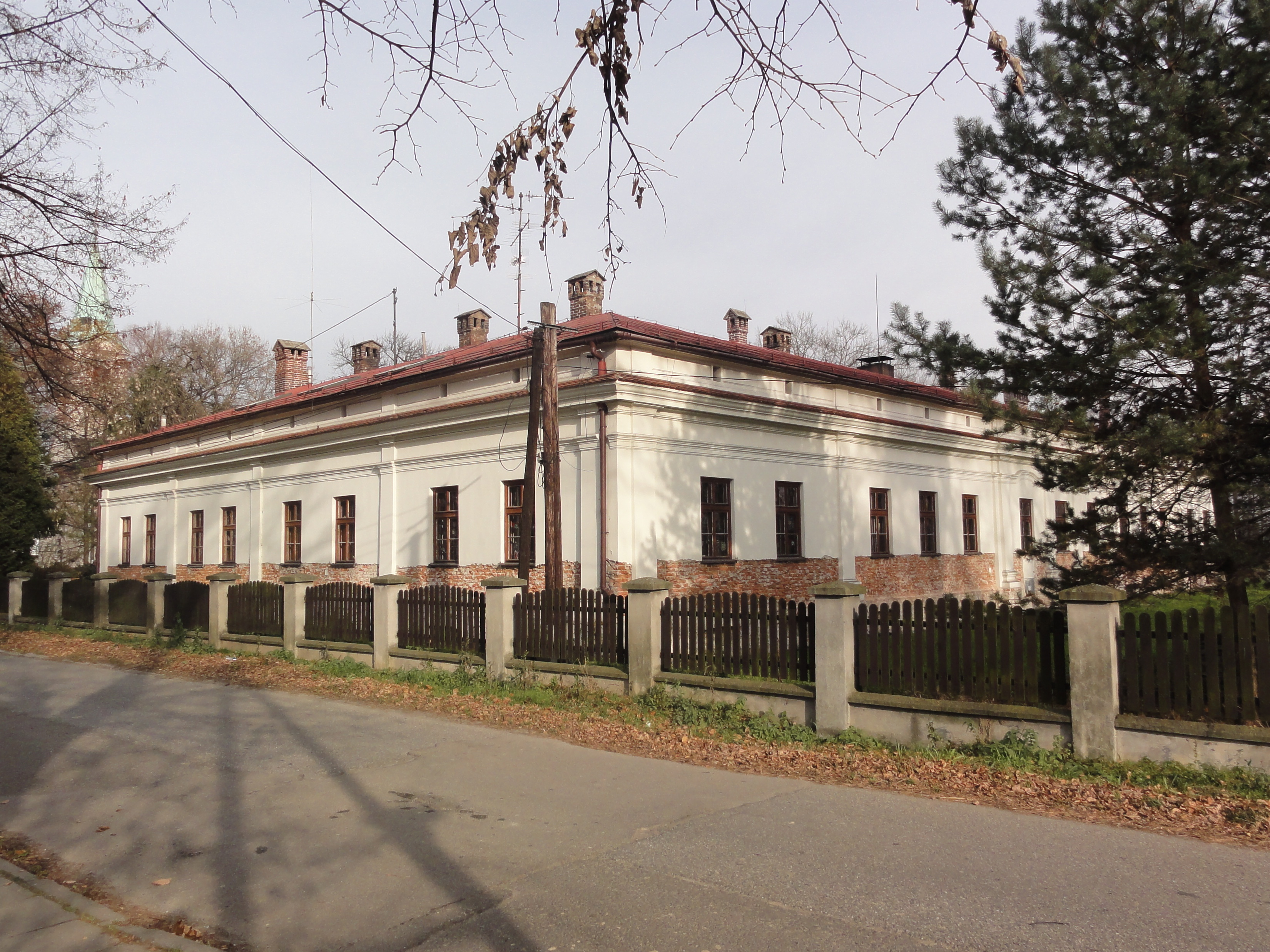 Former palace in Drogomyśl